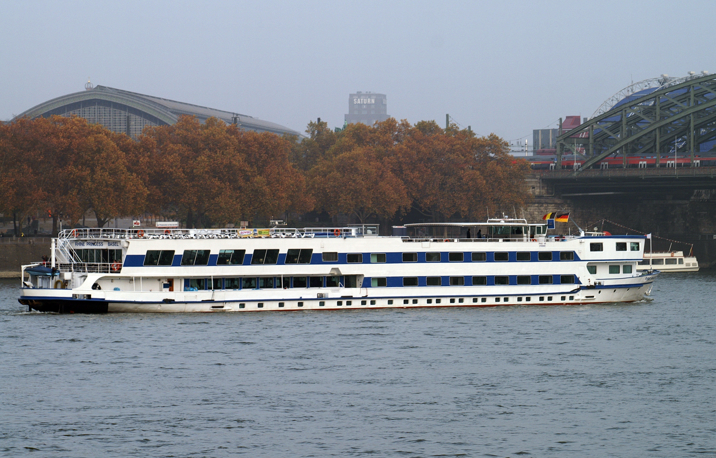 River cruise ship Rhine Princess in cologne.